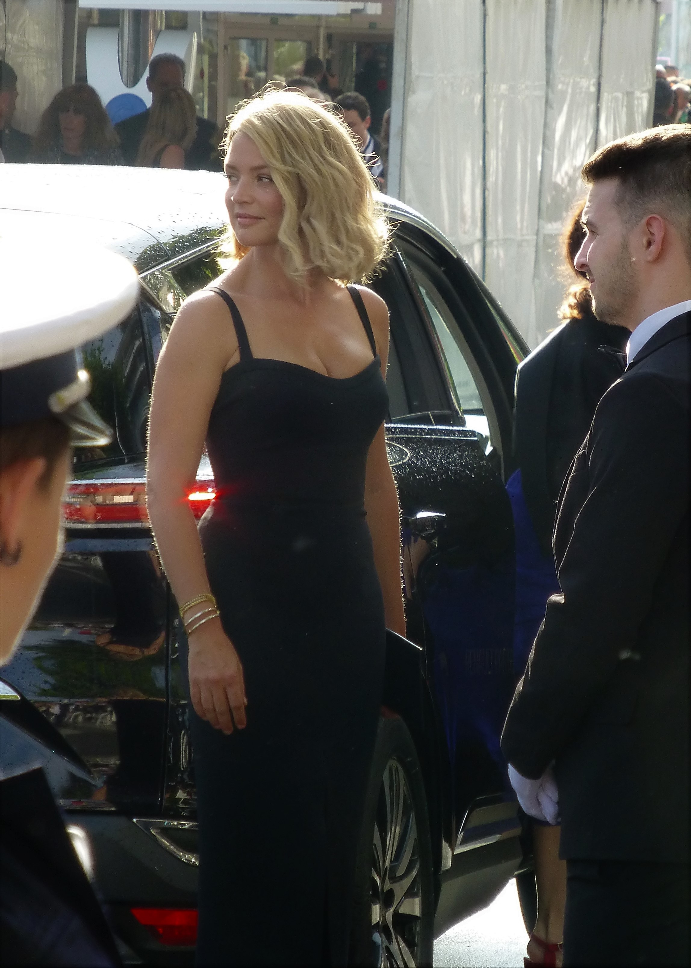 Virginie Efira at the world premiere of Cafe Society, 2016 Cannes Film Festival